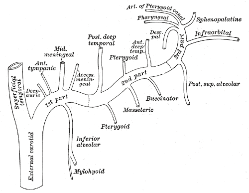 Plan of branches of maxillary artery